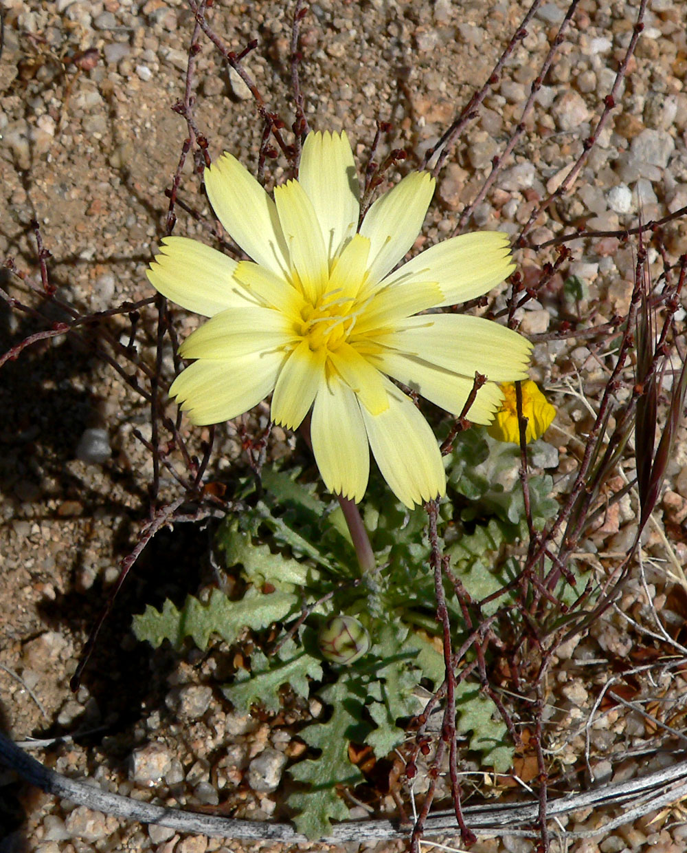 Anisocoma acaulis on Cima Dome near Teutonia Peak, Mojave National Preserve, California